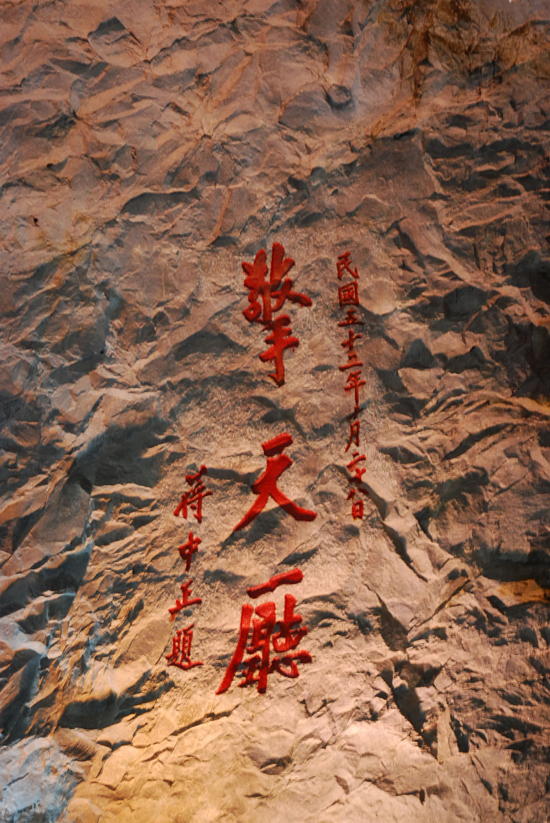 Ch'ing-t'ien Hall in Kinmen, Fujian, Republic of China (Taiwan)